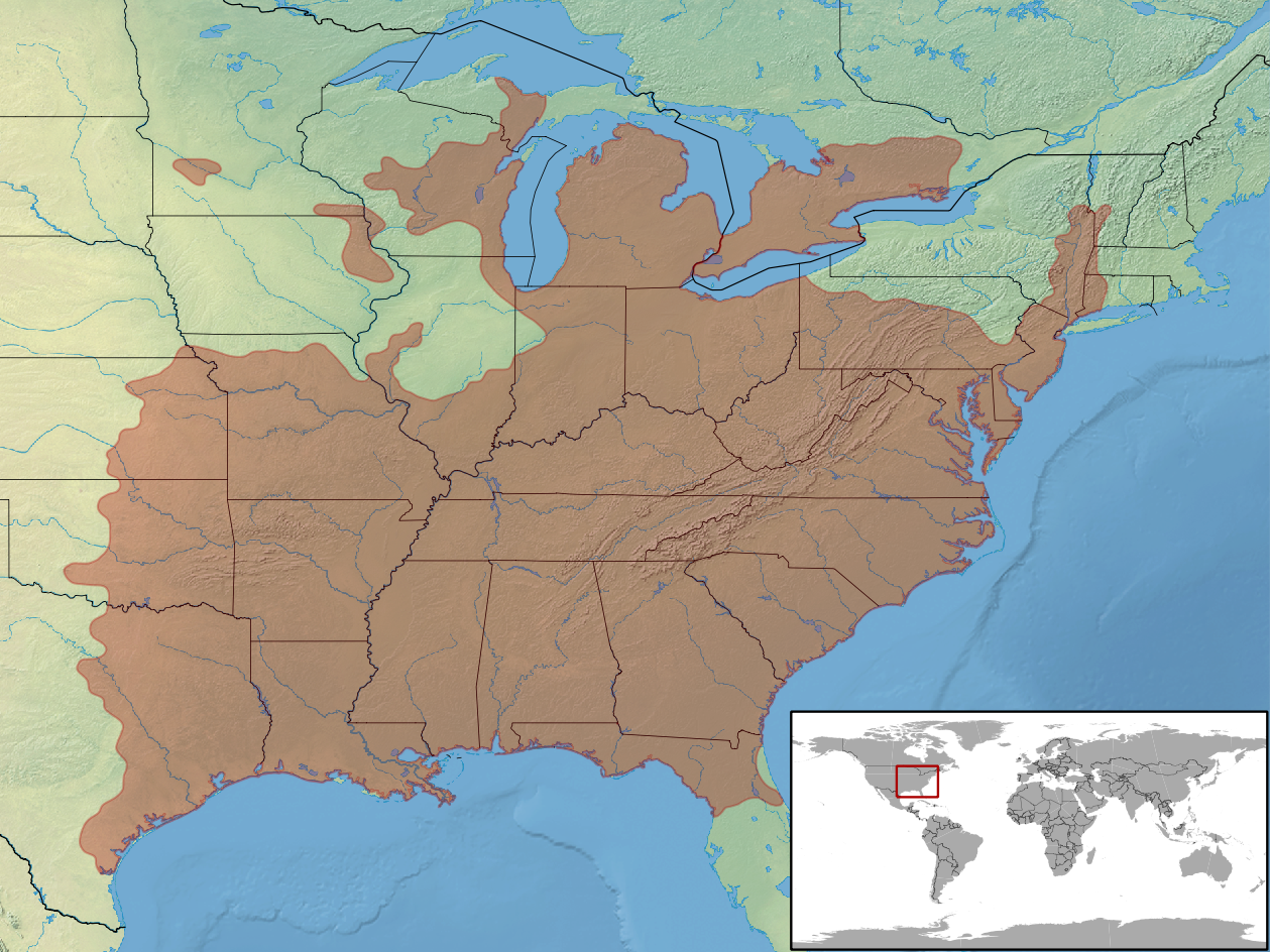 geographic distribution of Plestiodon fasciatus